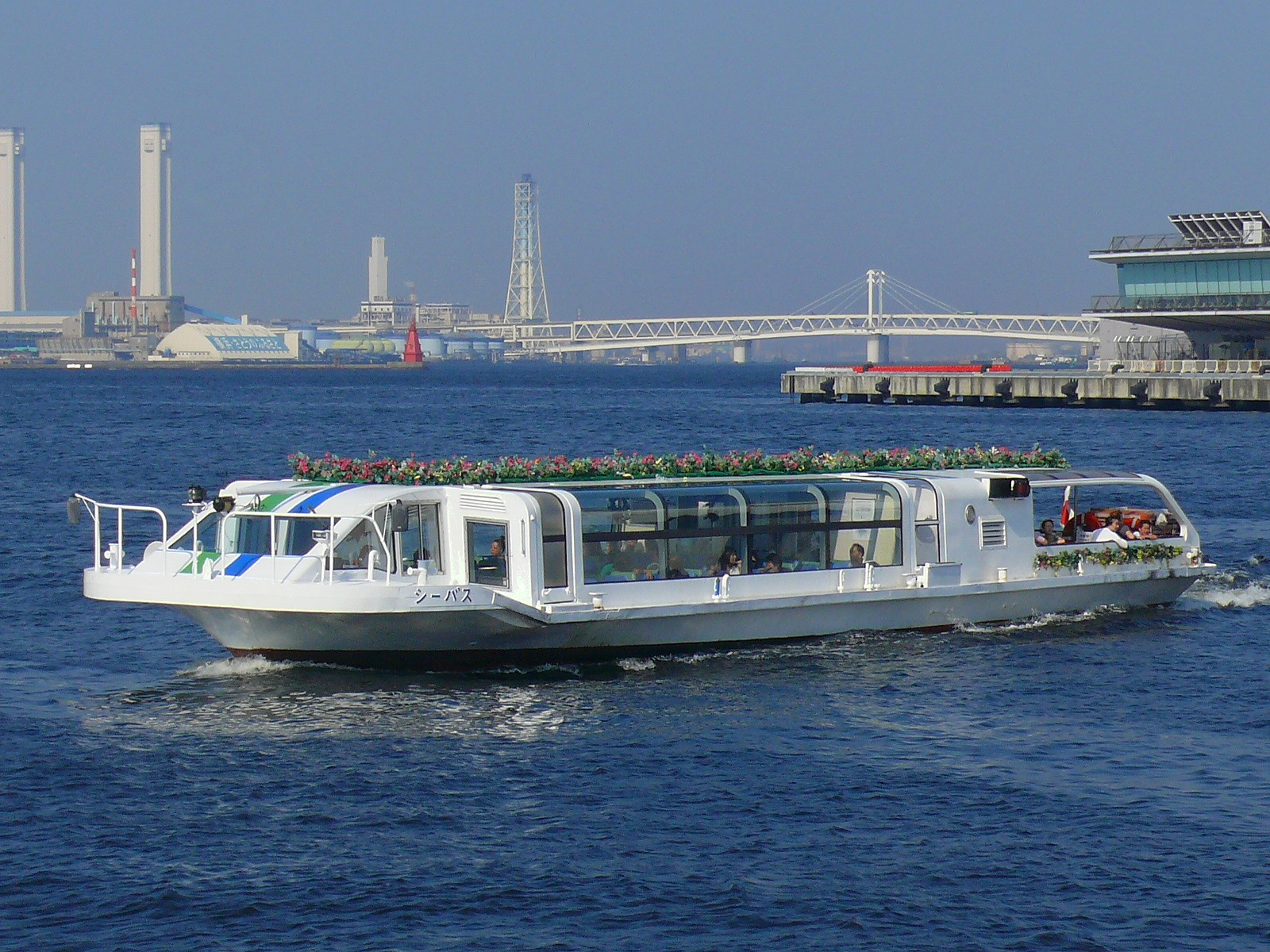 Sea bus that port service operates in Port of Yokohama. (Japan, Kanagawa prefecture, Yokohama City).